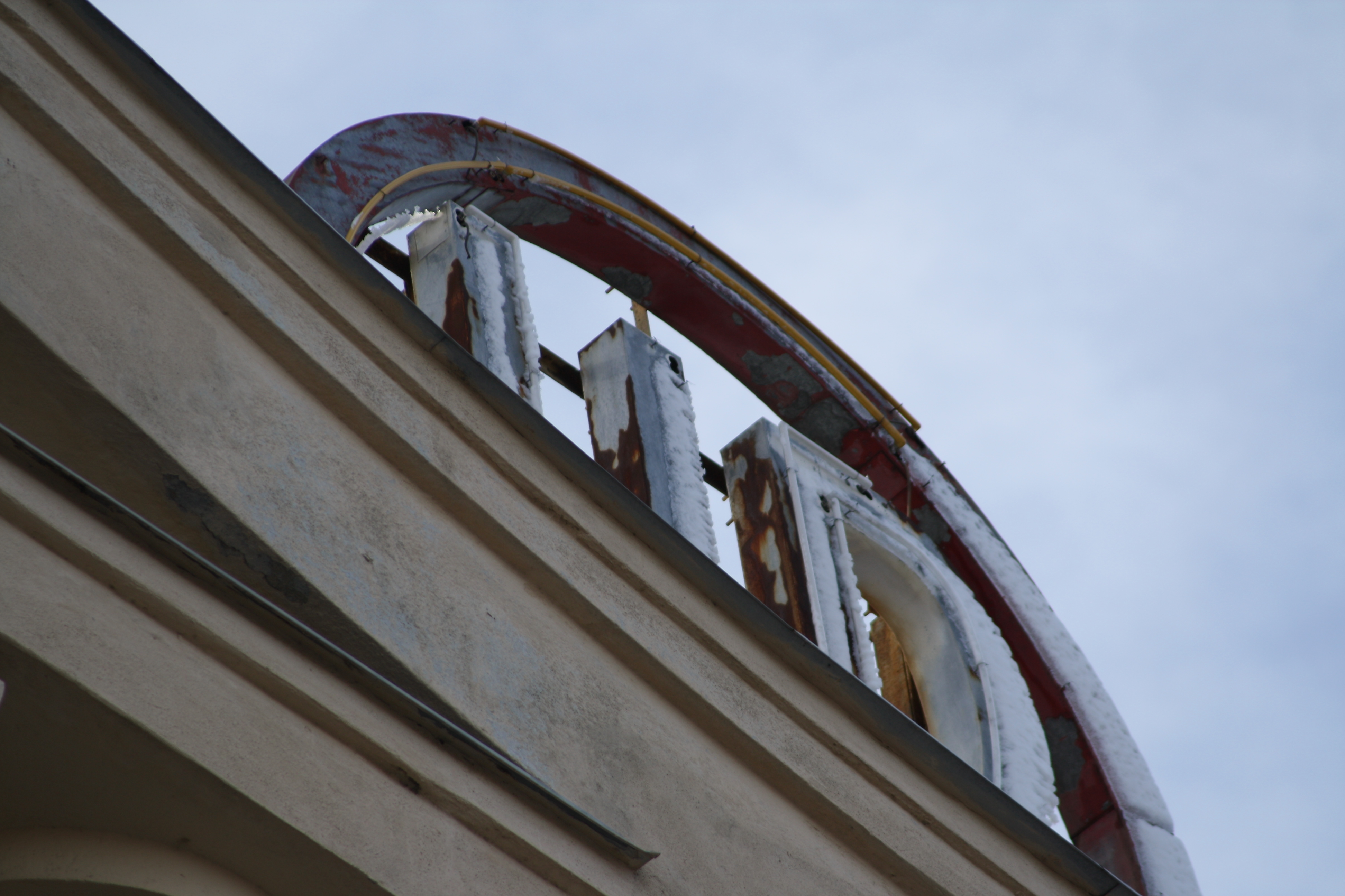 Historically logo at UP factory in Třebíč.